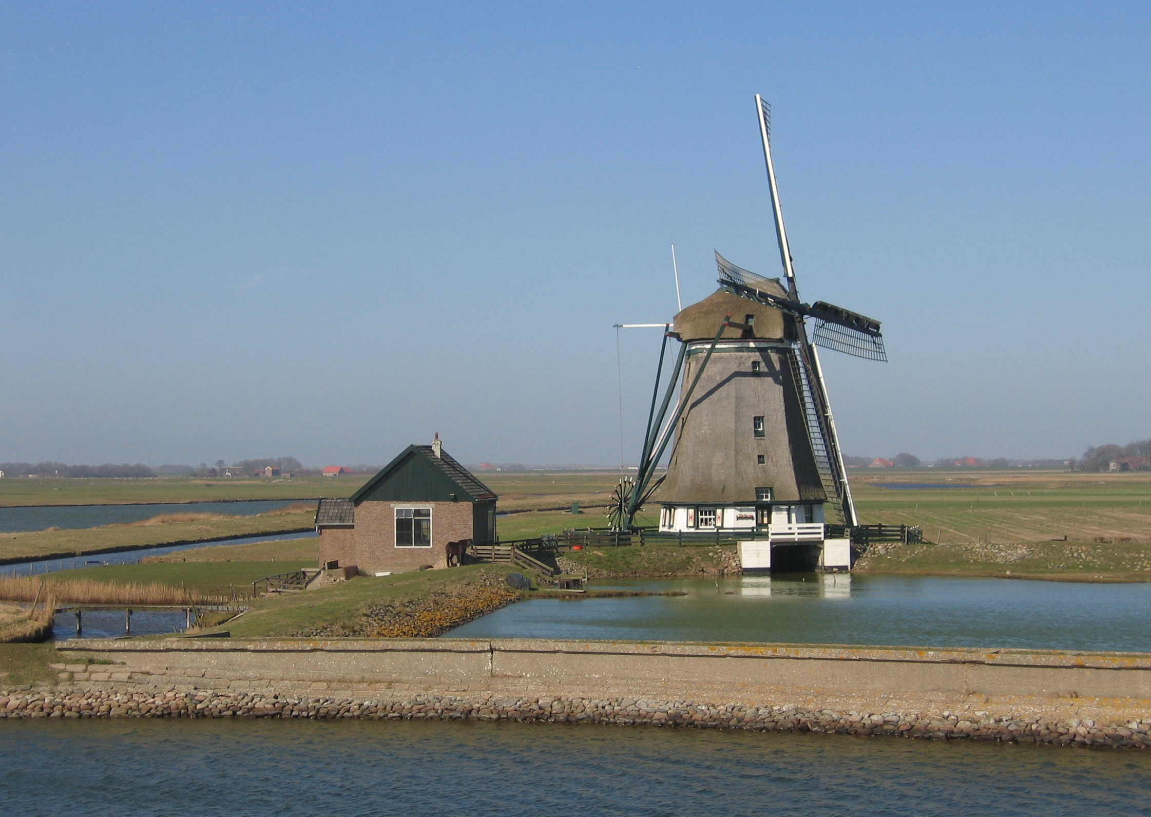 Windmill near Oost on the island of Texel, Netherlands.